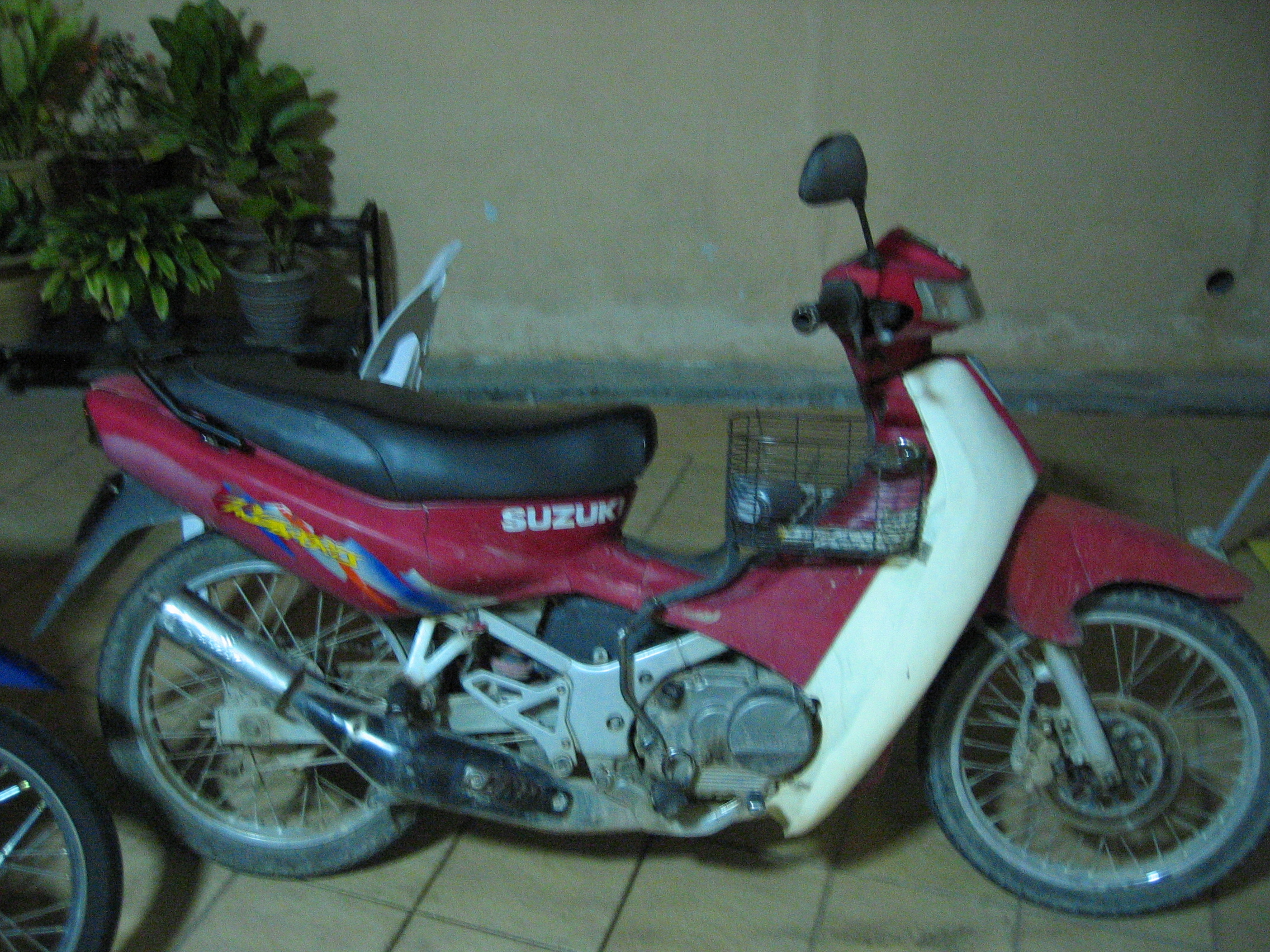 Suzuki RG Sport 110cc